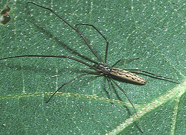 female Tetragnatha iriomotensis from Okinawa.